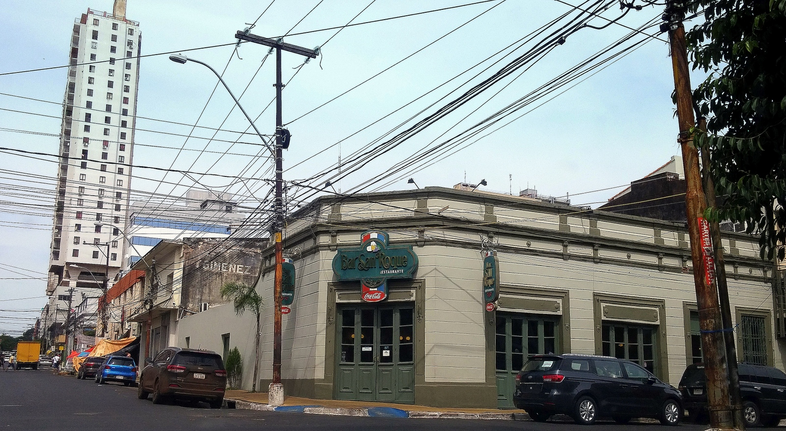 Bar San Roque one of the oldest eateries in Asunción, Paraguay